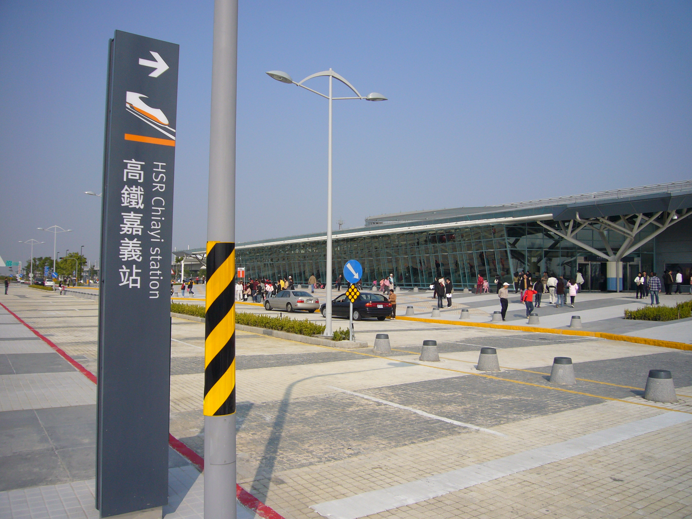 THSR Chiayi Station